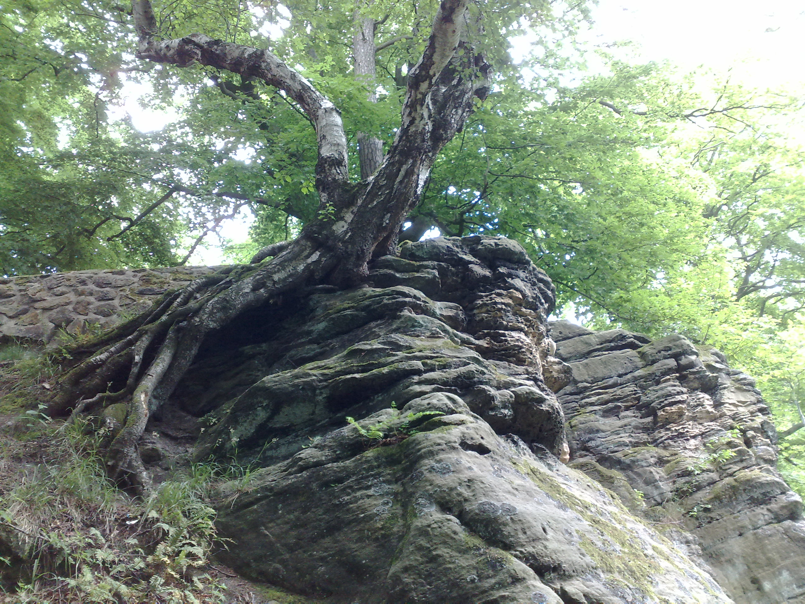 Rock formation at the Jägerhaus, above the Hubertusgrotto at Hainberg, part of a protected landscape area, administrative district of Wolfenbüttel, Lower Saxony, Germany.